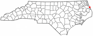 Category:North Carolina Dot Maps